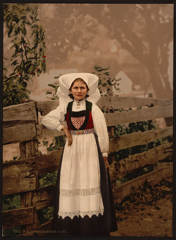 [A Hardanger girl, Hardanger Fjord, Norway] [between ca. 1890 and ca. 1900]. 1 photomechanical print : photochrom, color. Notes: Title from the Detroit Publishing Co., Catalogue J--foreign section. Detroit, Mich. : Detroit Publishing Company, 1905. Print no. 7011. Forms part of: Landscape and marine views of Norway in the Photochrom print collection. Subjects: Norway--Hardangerfjord. Format: Photochrom prints--Color--1890-1900. Repository: Library of Congress, Prints and Photographs Division, Washington, D.C. 20540 USA, Part Of: Landscape and marine views of Norway (DLC) 2001699563 More information about the Photochrom Print Collection is available at Persistent URL: Call Number: LOT 13432, no. 029 [item]